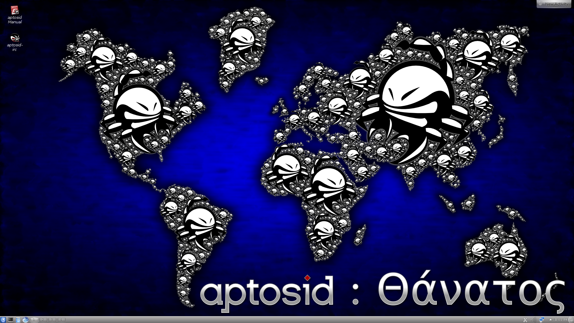 Screenshot of the KDE version of aptosid Thanatos.